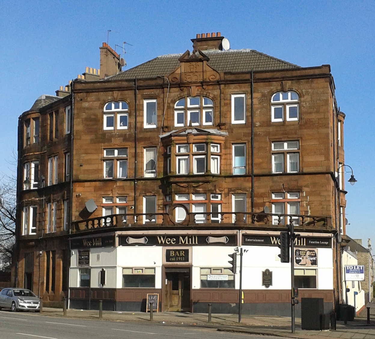 41 Dalmarnock Road, Rutherglen, And 1-3 Baronald Street, Rutherglen; incorporating Wee Mill Bar (former Tennents Bar).